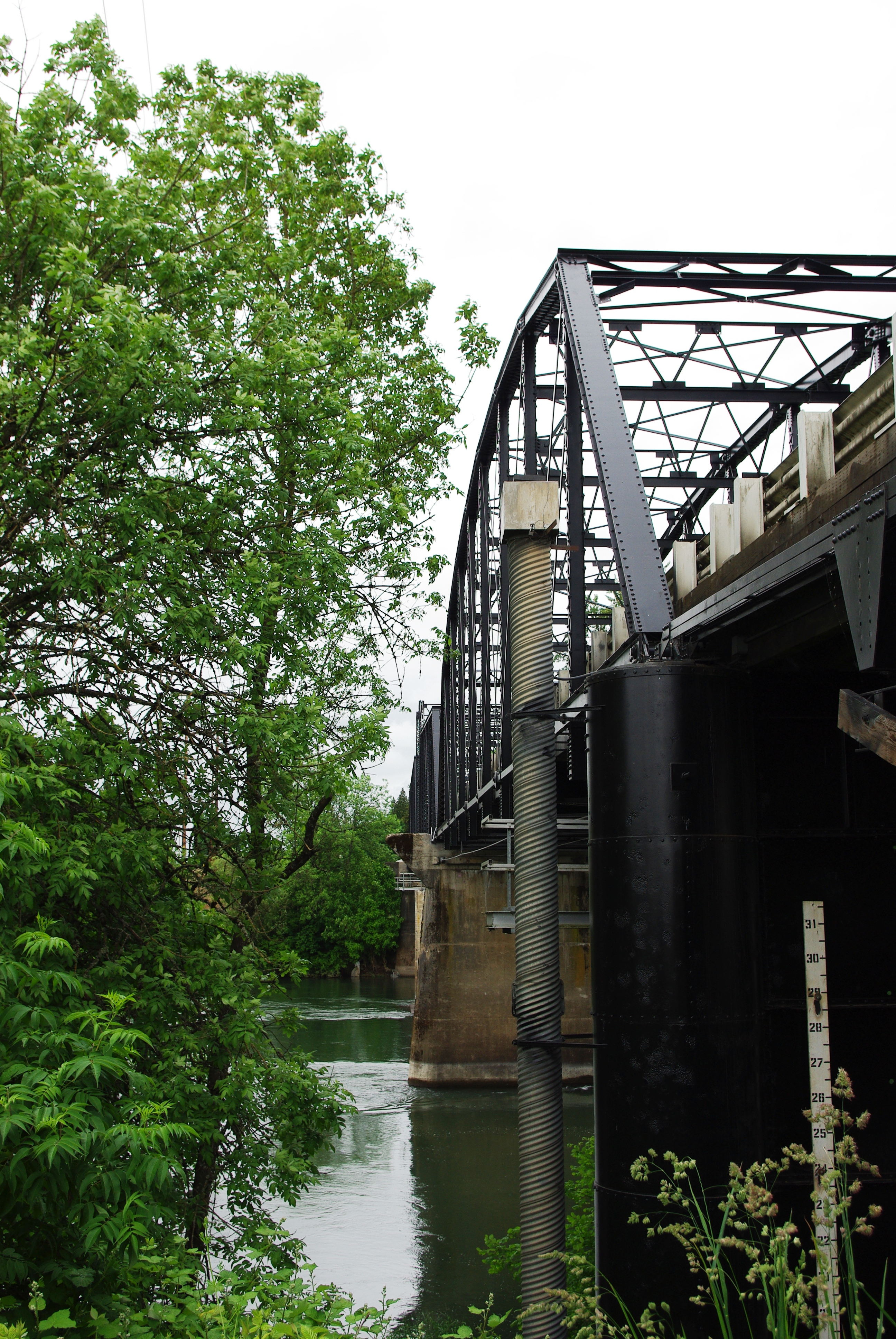 Van Buren Street Bridge in Corvallis, Oregon, USA